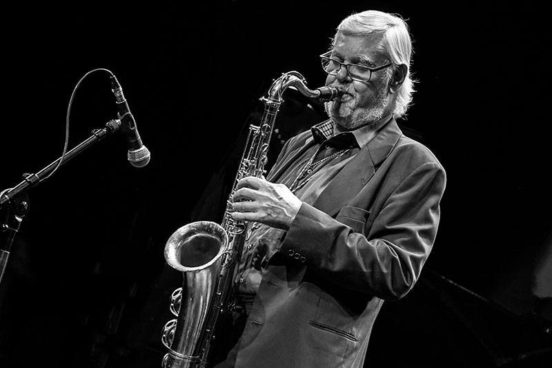 Jesper Thilo in Aarhus, Denmark 2018. Performing with Scott Hamilton (s), Søren Kristiansen (p), Hans Backenroth (b) and Kristian Leth (d).